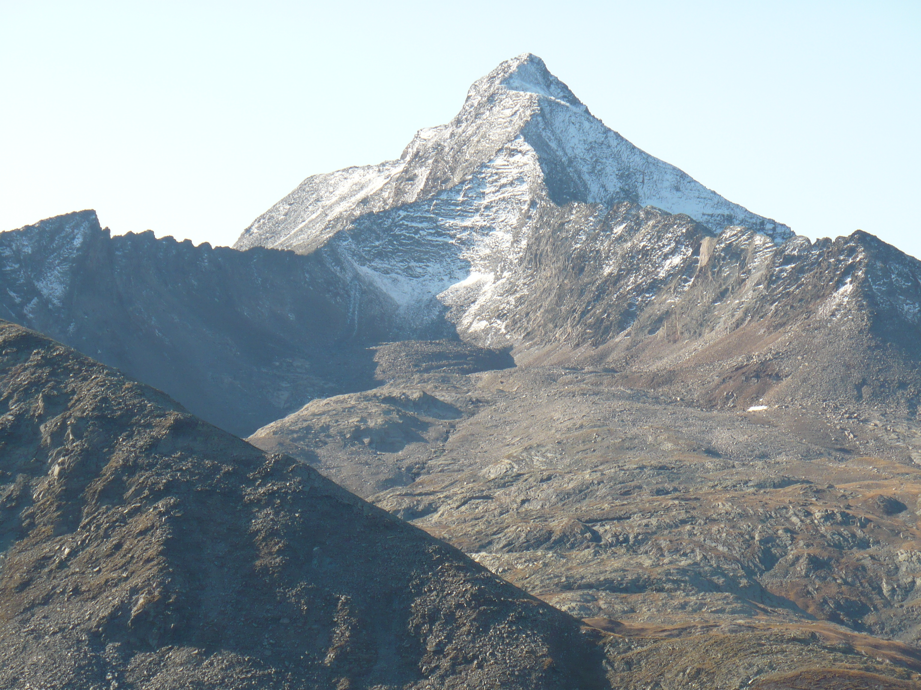 Punta Lavina - Graian Alps - Aosta Valley - Italy